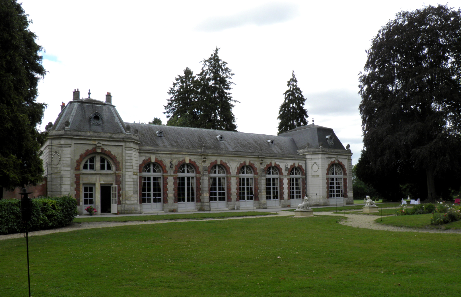 Orangery of the Chaalis abbey, Oise, France.